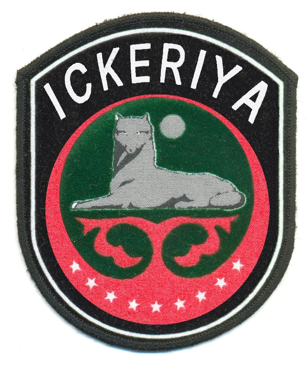 Chechen Army patch